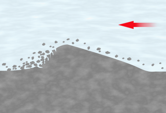 Roche moutonnée without texts, language neutral